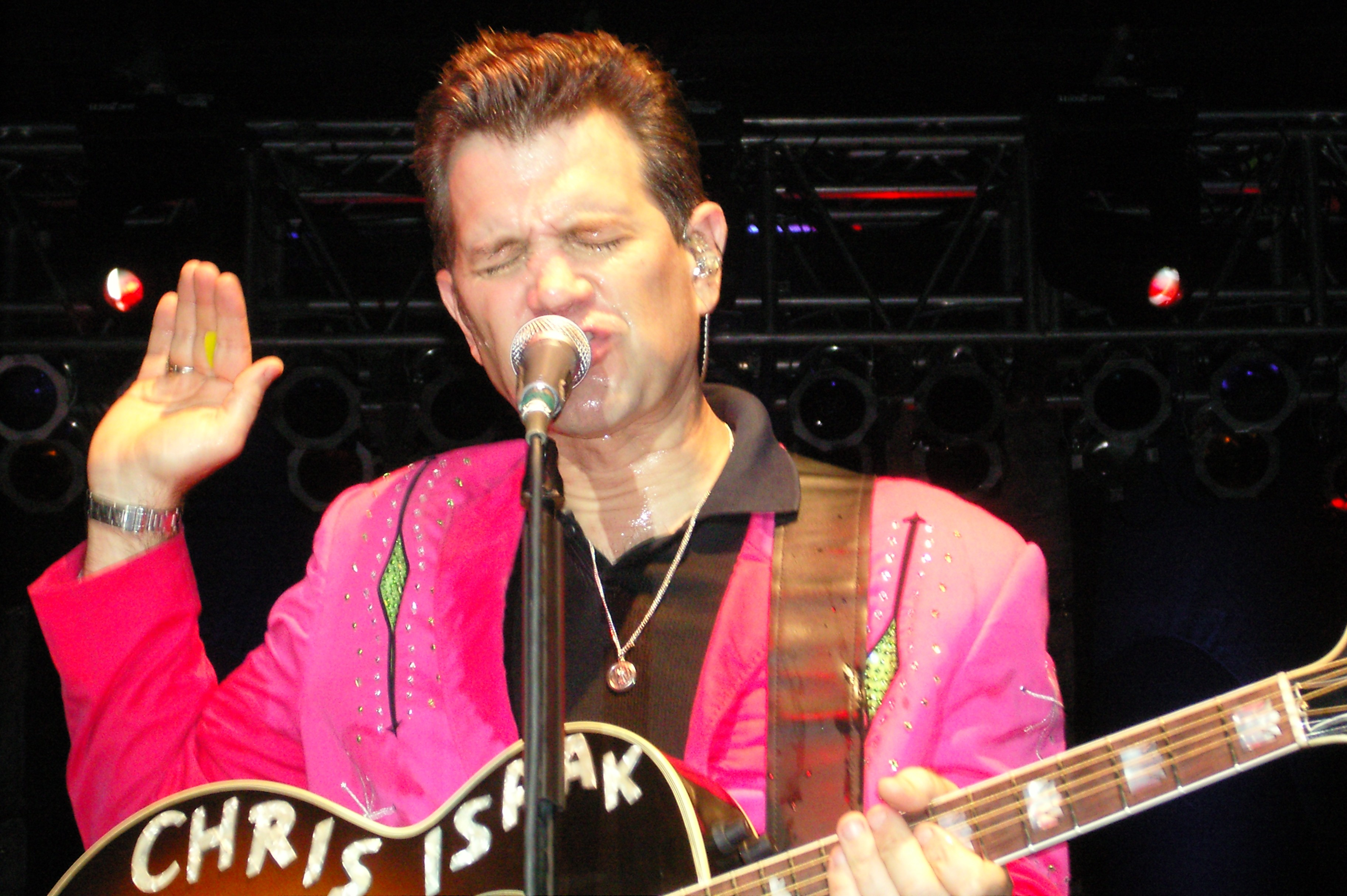 Pompano Beach Amphitheater taken by Elizabeth Lender